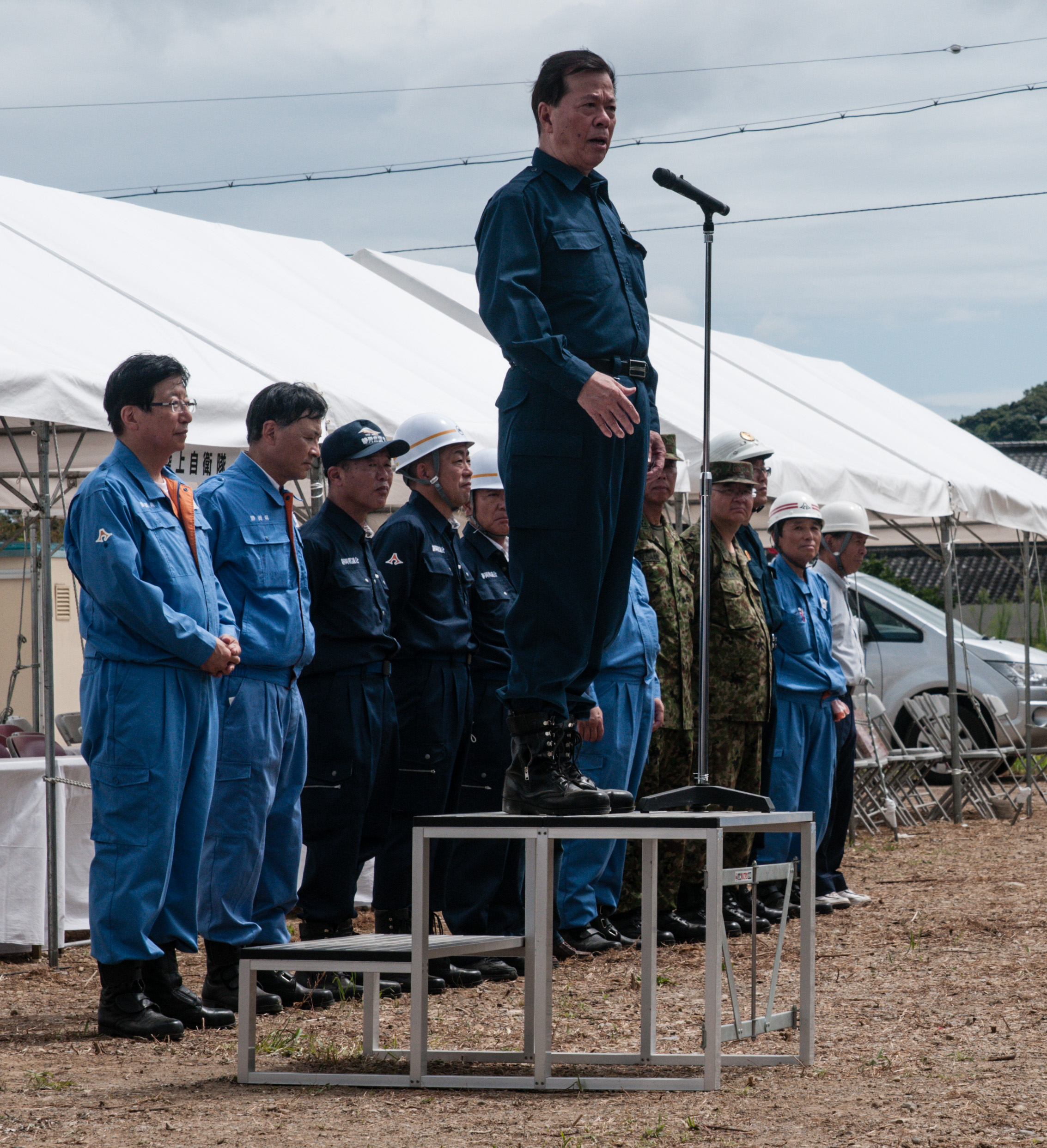 Heita Kawakatsu, Governor of Shizuoka Prefecture, and Saburō Matsui, Mayor of Kakegawa City, participated in Shizuoka Prefecture and Kakegawa City Disaster Drill in Kakegawa City, Shizuoka Prefecture on September 4, 2016. After that, Matsui addressed.